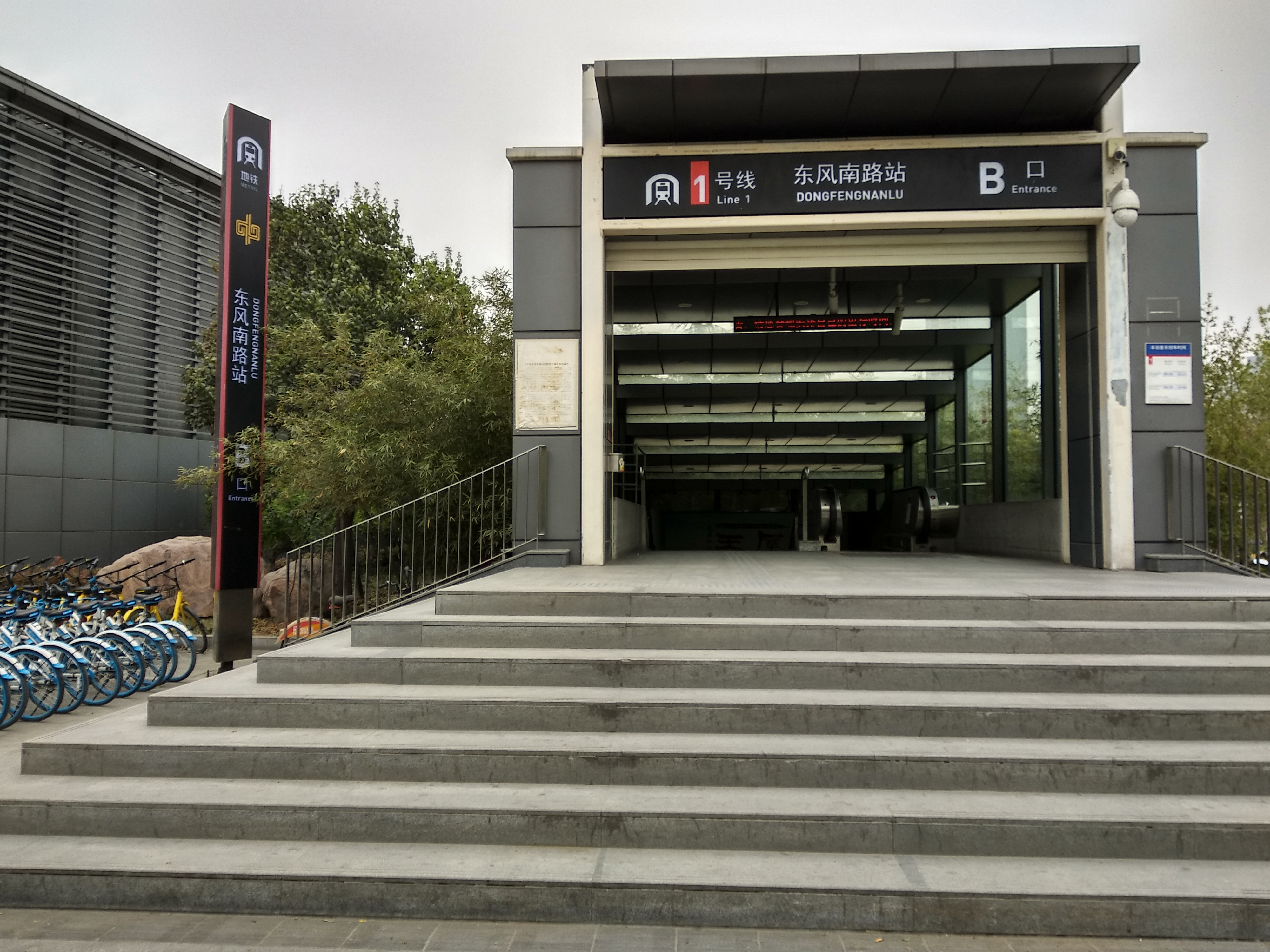 It's a station on Line 1, Zhengzhou Metro, and is located in Guancheng Hui District. Not to be Confused with Dongfenglu (Dongfeng Rd.) Station, which is on the Line 2 and located in Jinshui District.